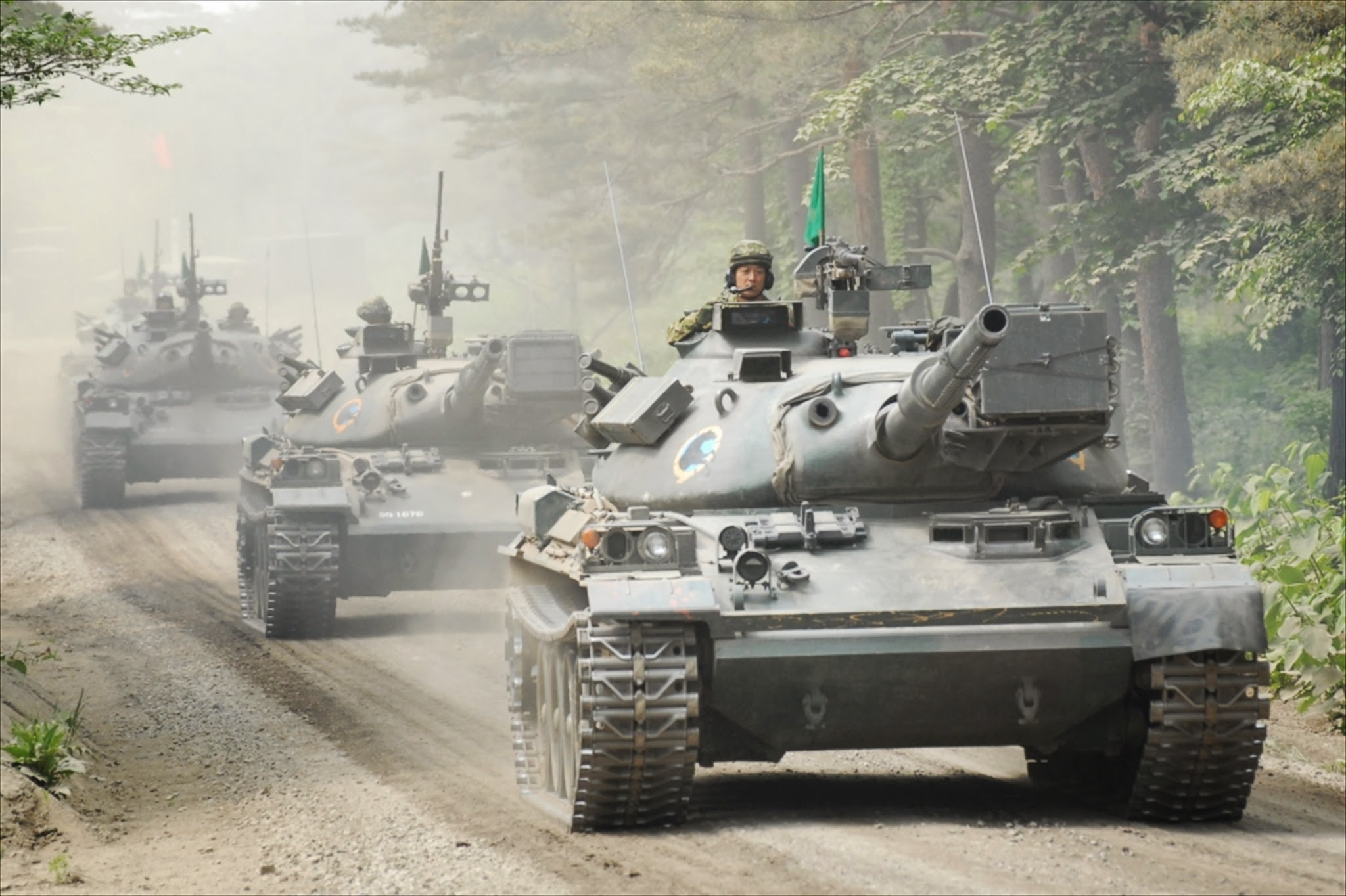 Title 方面戦車射撃競技会 (3).JPG Album 教育訓練等 平成２５年度東北方面戦車射撃競技会（第９戦車大隊・岩手）